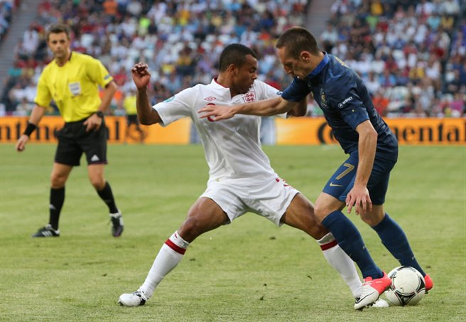 UEFA Euro 2012 match between France and England played in Donetsk at Donbas Arena. Final result was 1:1 (Nasri, Lescott).